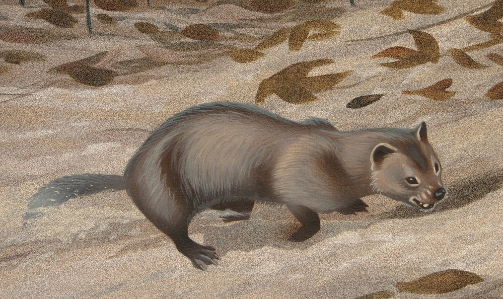 Leptocyon reconstruction. Cropped from Kimberly Member Mural from the Thomas Condon Paleontology Center, painted by Roger Witter.